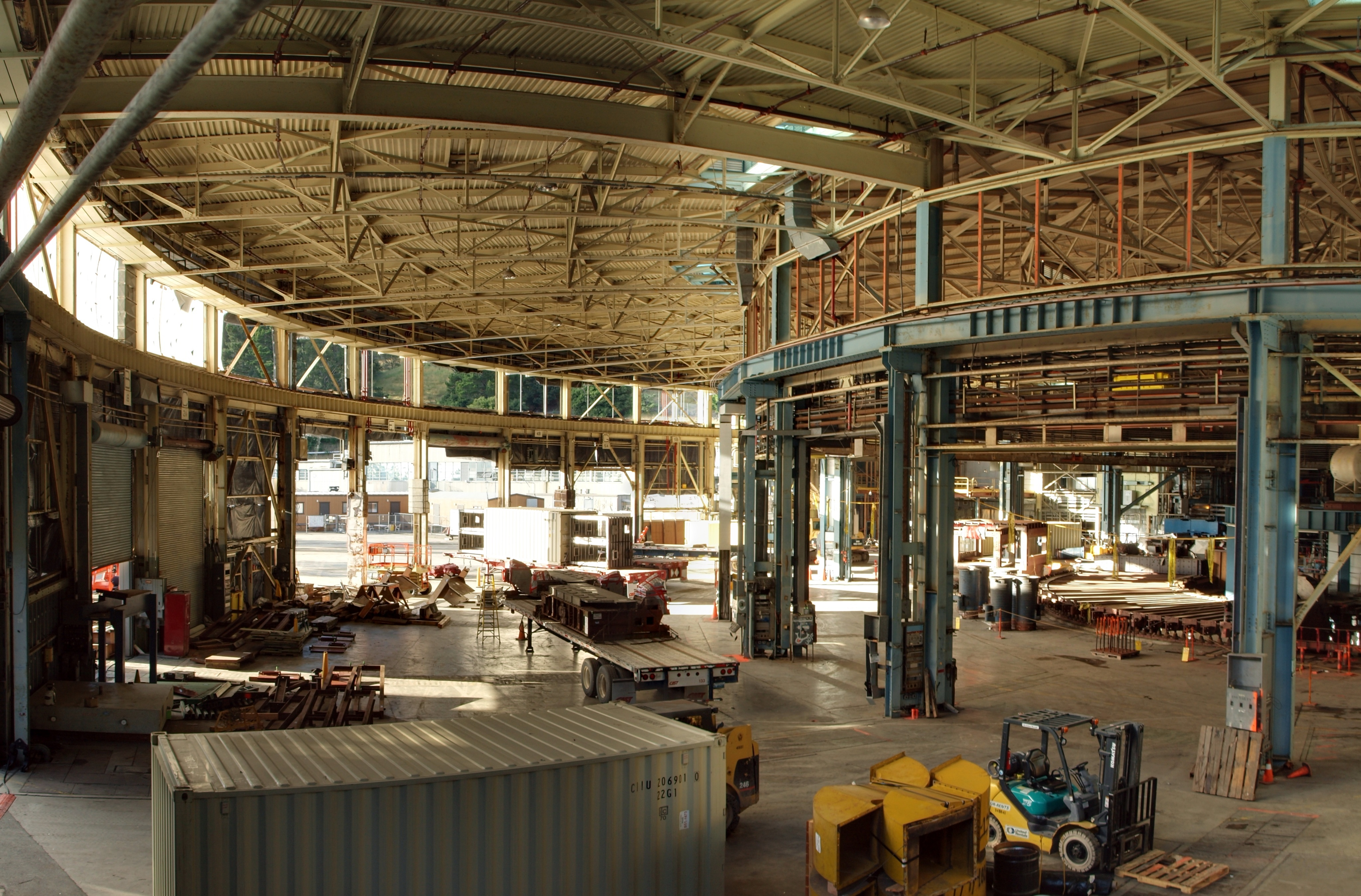 The interior of the old Bevatron building at Lawrence Berkeley National Laboratory in Berkeley, CA. When this picture was taken the building was nearing completion of a multi-year demolition and the decommissioned ring had already been removed, leaving only the structural framework of the facility. When it was built in 1954 the Bevatron was the world's most powerful particle accelerator, capable of 1BeV collisions. Research at the Bevatron resulted in the discovery of the antiproton and led to several Nobel Prizes in physics.